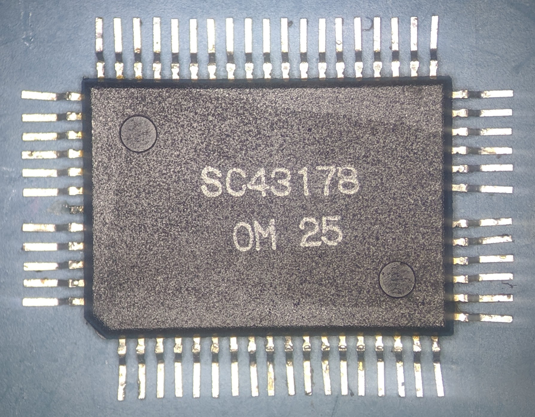 Package top of a Sharp SC43178 CPU. Used in the TRS-80 PC-1 pocket computer.